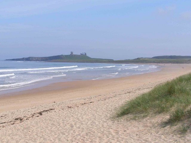 Dunstanburgh Castle from Embleton Beach Higher definition image available